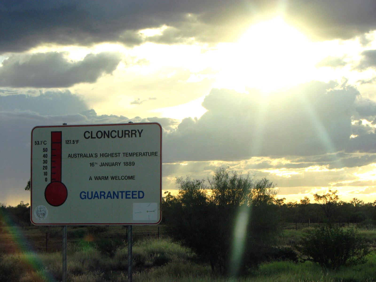 Cloncurry, Queensland - sign